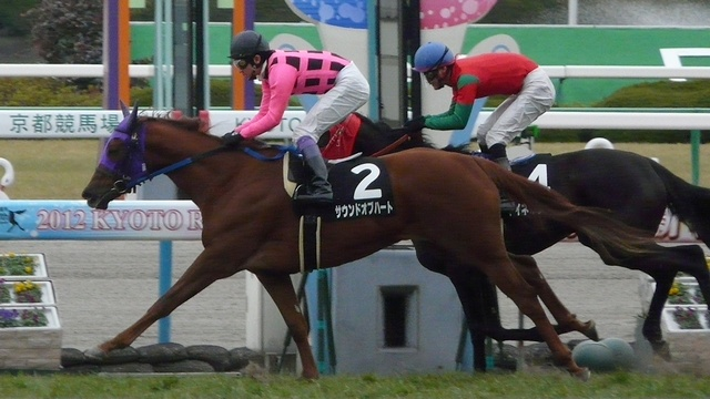 Sound-of-heart20120115